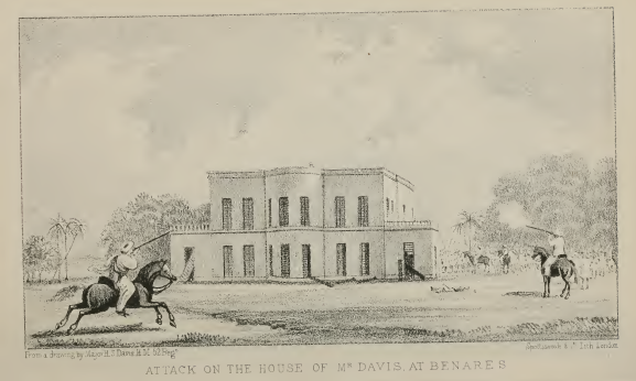 Attack on the House of Mr. Davis, Benares, 17. Feb. 1799 by Vizir Ali's rebels